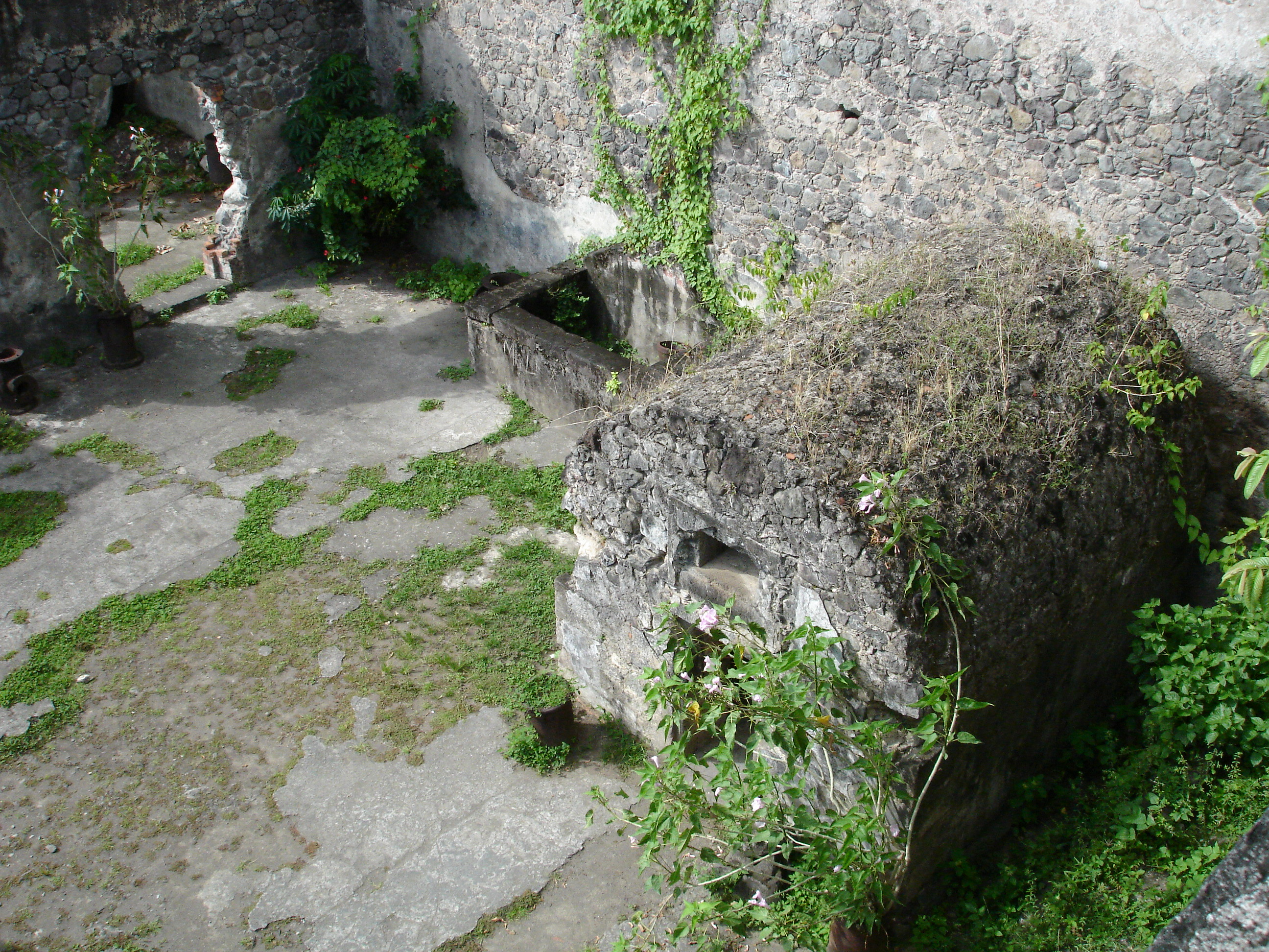 The jail of Louis-Auguste Cyparis, survivor of the eruption of the Mont Pele in Saint-Pierre (Martinique)